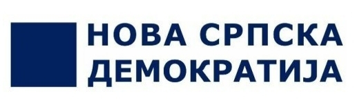 Official logo of the New Serbian Democracy